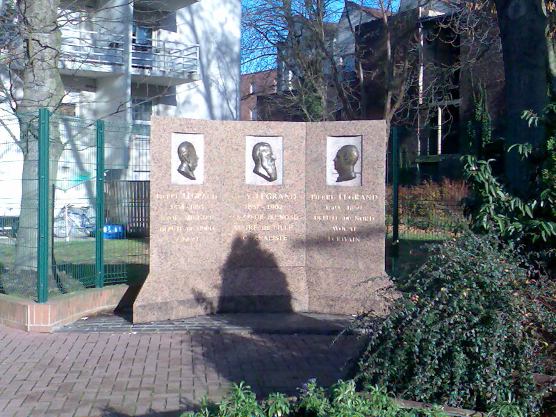 Picture of the statue of the Legrand family, taken by user:Clodomir17 in Lille, 2006 dec, 10th